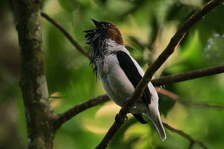 An adult male bird calling in the Arima Valley of Trinidad.